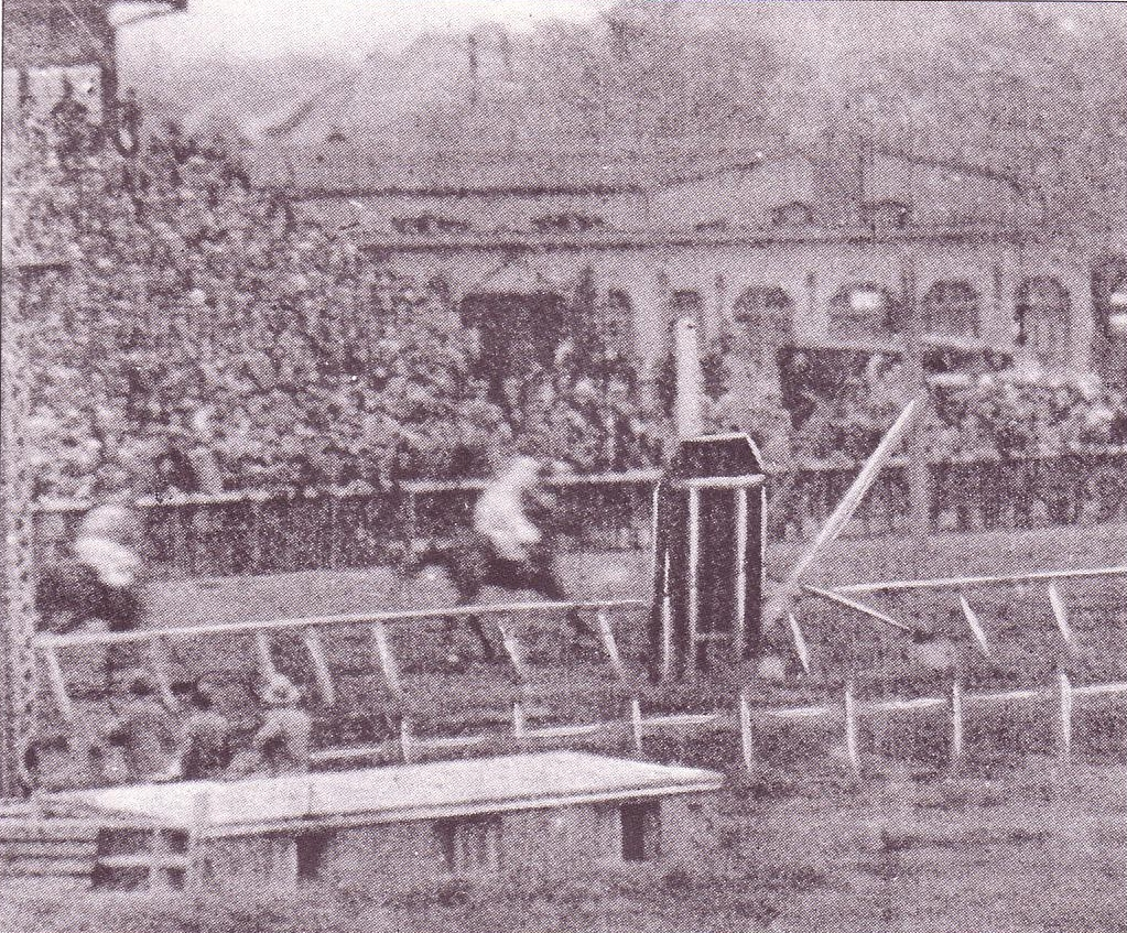 第二回東京優駿大競走（日本ダービー）、1着：カブトヤマ The 2nd Tokyo Yushun (Japanese Derby), won: Kabutoyama